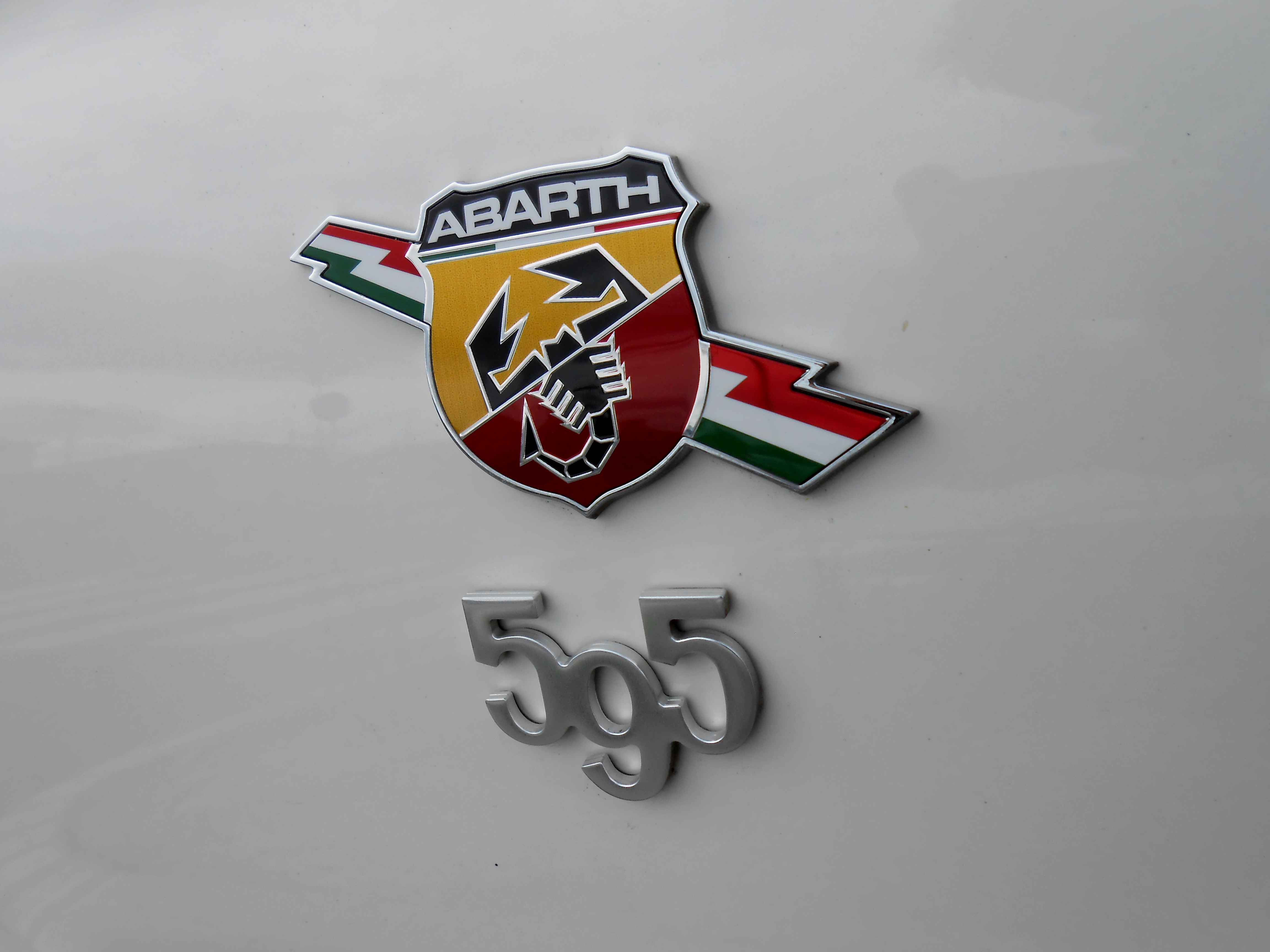 The logo of Abarth 595.